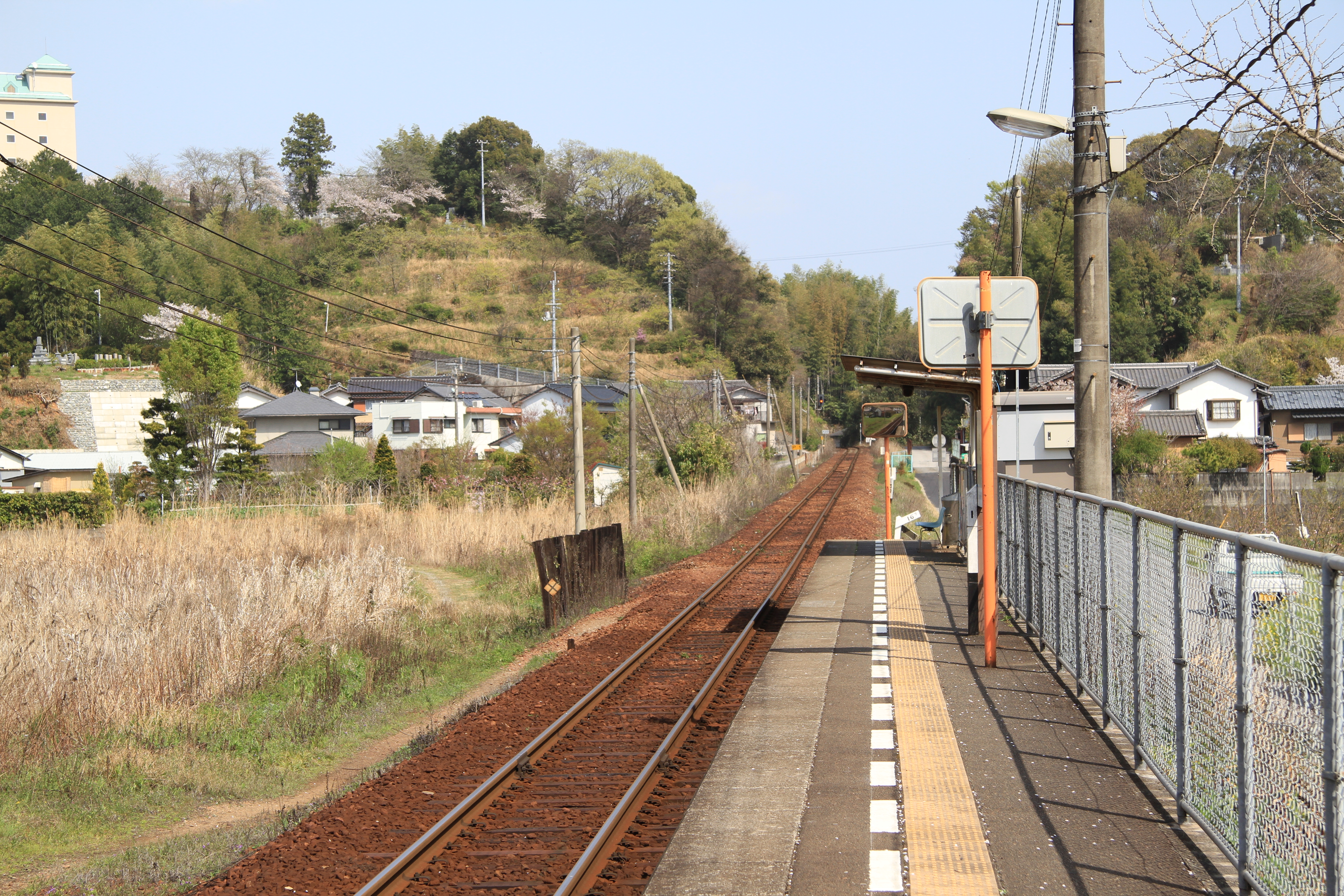 Hakawa Station Platform